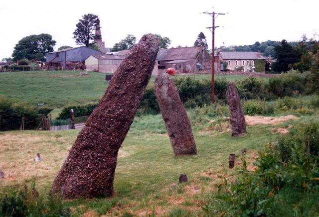 Harolds Stones, Trellech. Even the village is named after these Bronze age pudding stones stones, 'tre' meaning three and 'lech' meaning Stone.